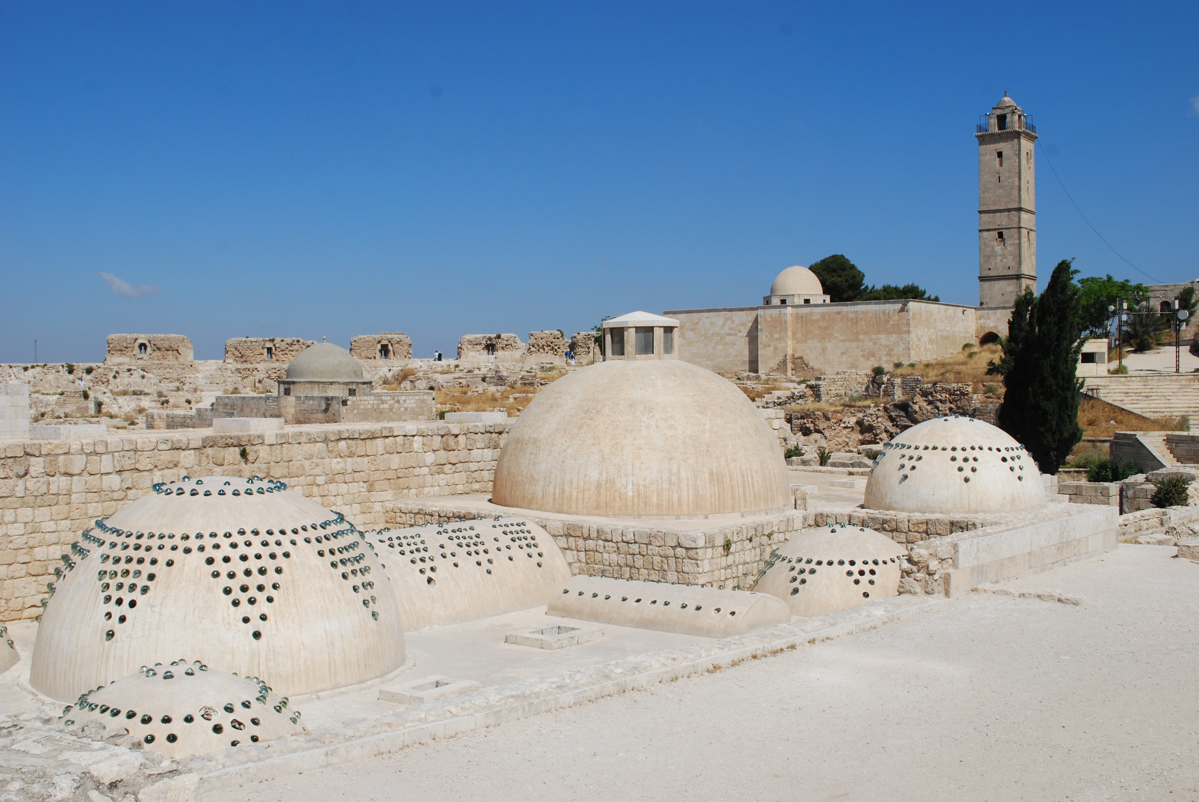 Citadel, roof of the baths and mosque and minaret on the background, Aleppo in 2004